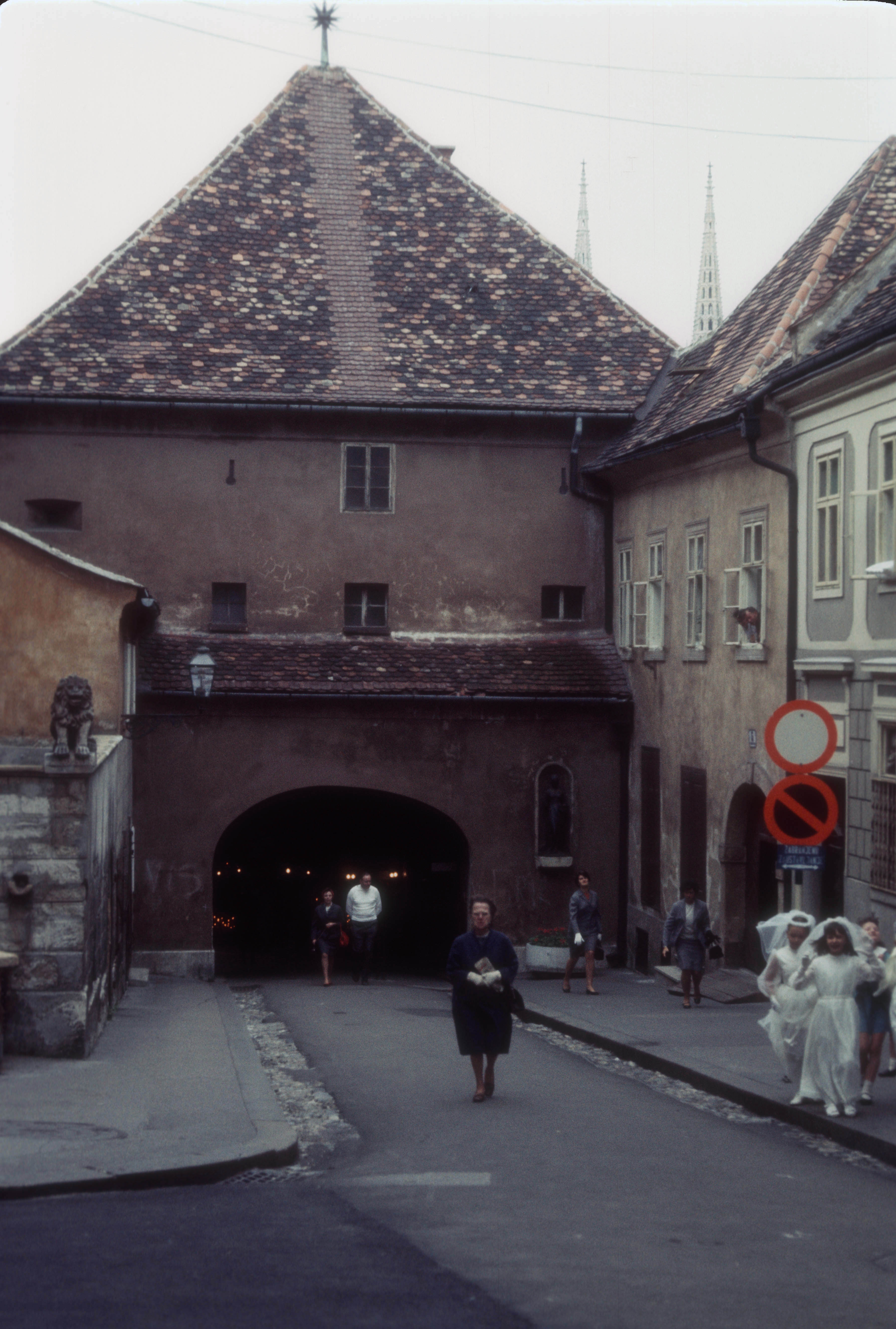 STONE GATE - ORIGINALLY PART OF THE WALLS OF THE ORIGINAL TOWN OF GRADEC. AT THE BEGINNING OF THE 18TH C. A CHAPEL WAS BUILT INTO THE GATE. IT IS THE ONLY ONE OF THE ORIGINAL FOUR GATES INTO THE CITY STILL REMAINING